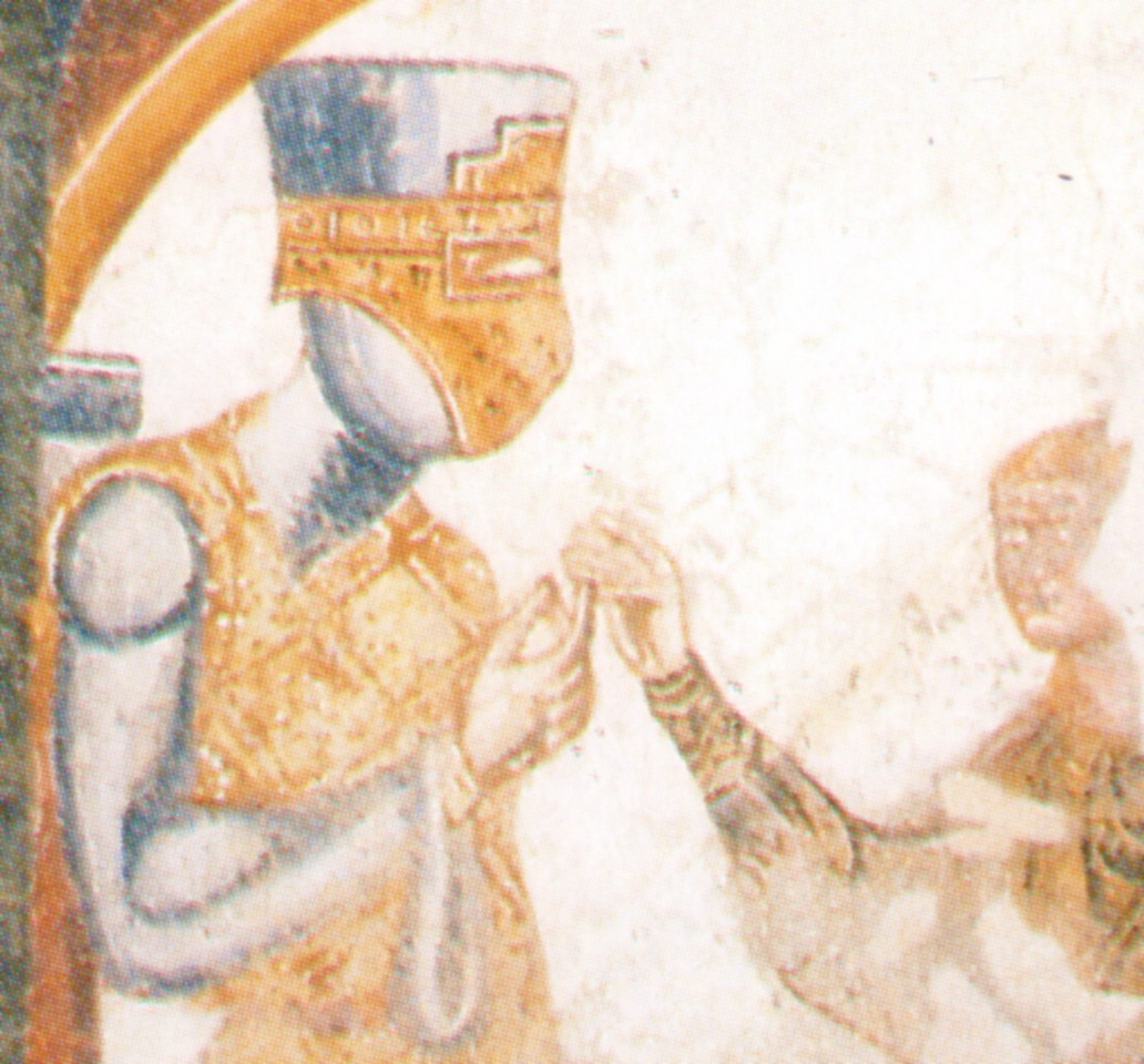 Anonymous (13th century), Fresco, depicting a scene from "Iwein" by Hartmann von Aue in Rodenegg Castle, South Tyrol, Italy